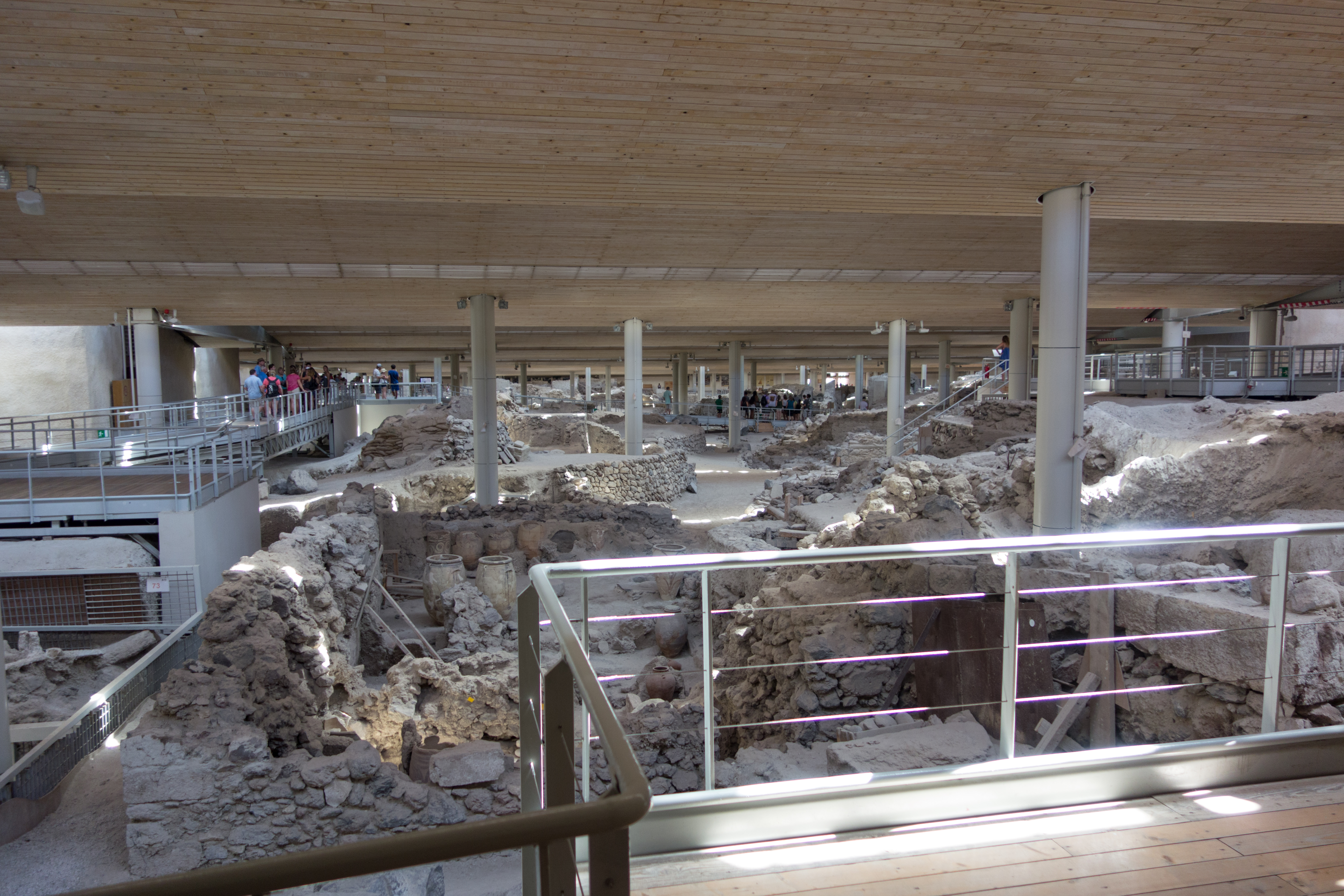 Panoramic view«Ακρωτήρι Θήρας»